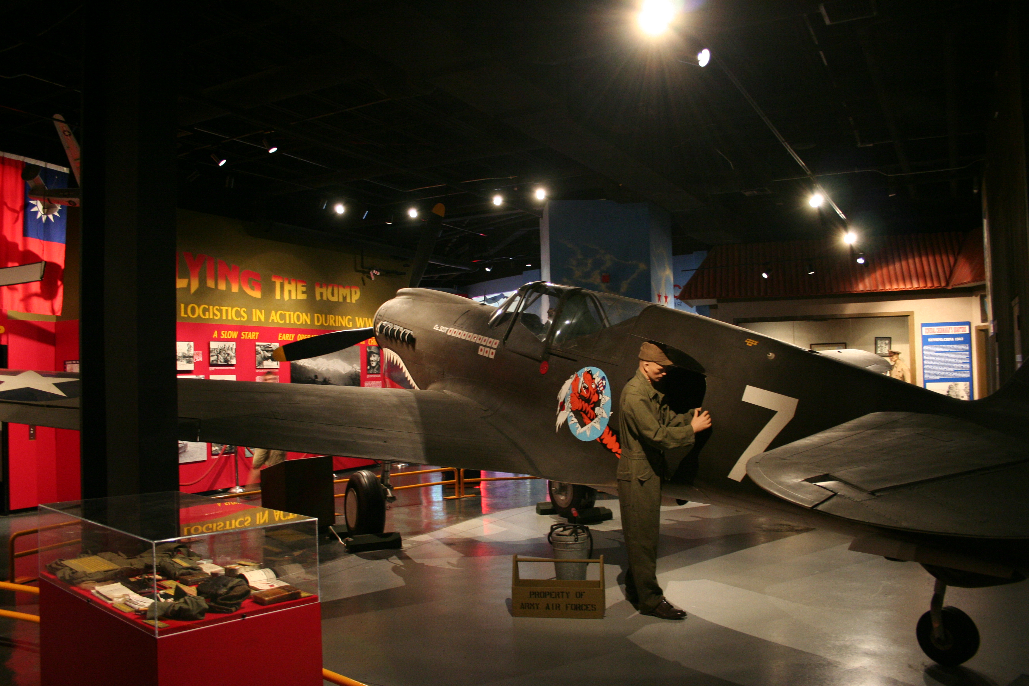 Curtiss P-40N Warhawk inside Robins AFB Museum of Aviation